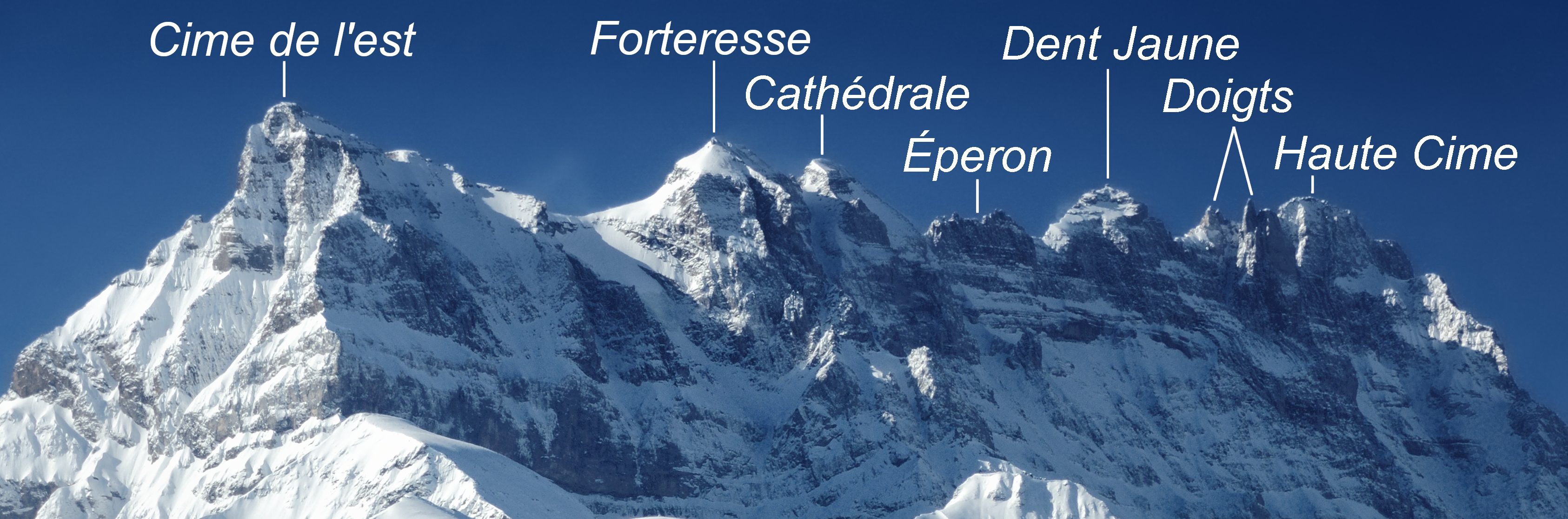 Picture of the dents du Midi with the names of the peaks